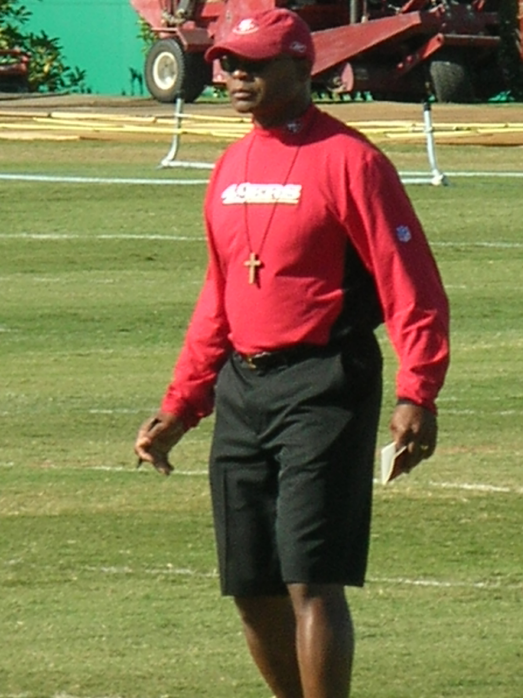 San Francisco 49ers head coach Mike Singletary at training camp at the team's headquarters and practice facility in Santa Clara, California.